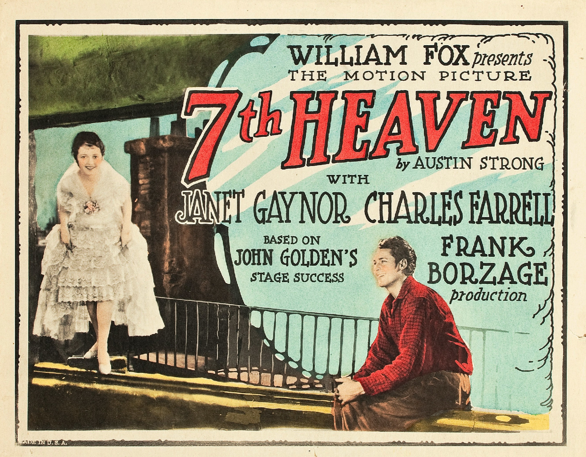 Lobby card for the American romantic drama film 7th Heaven (1927).